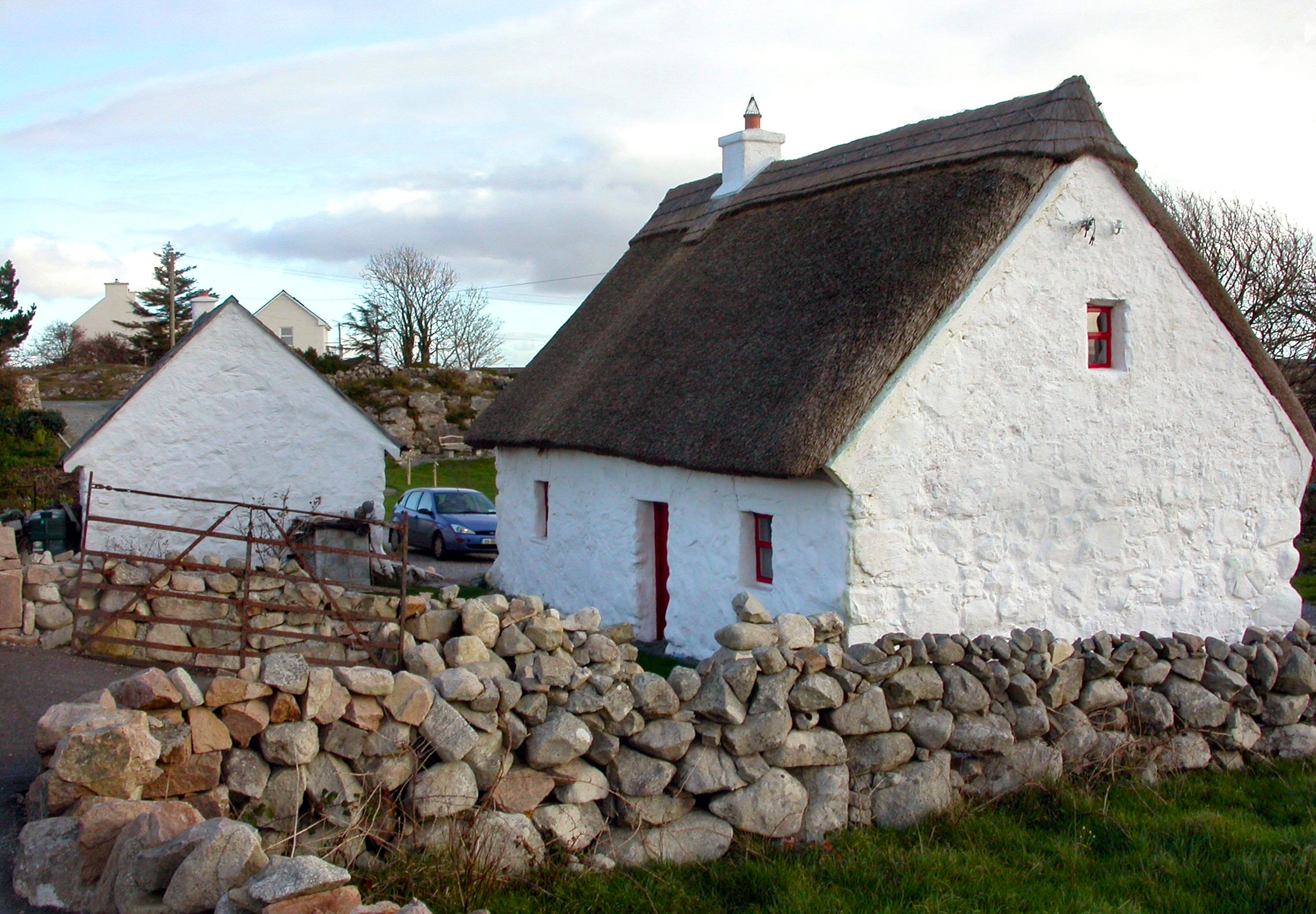 Seantithe ceann tui, Indreabhán